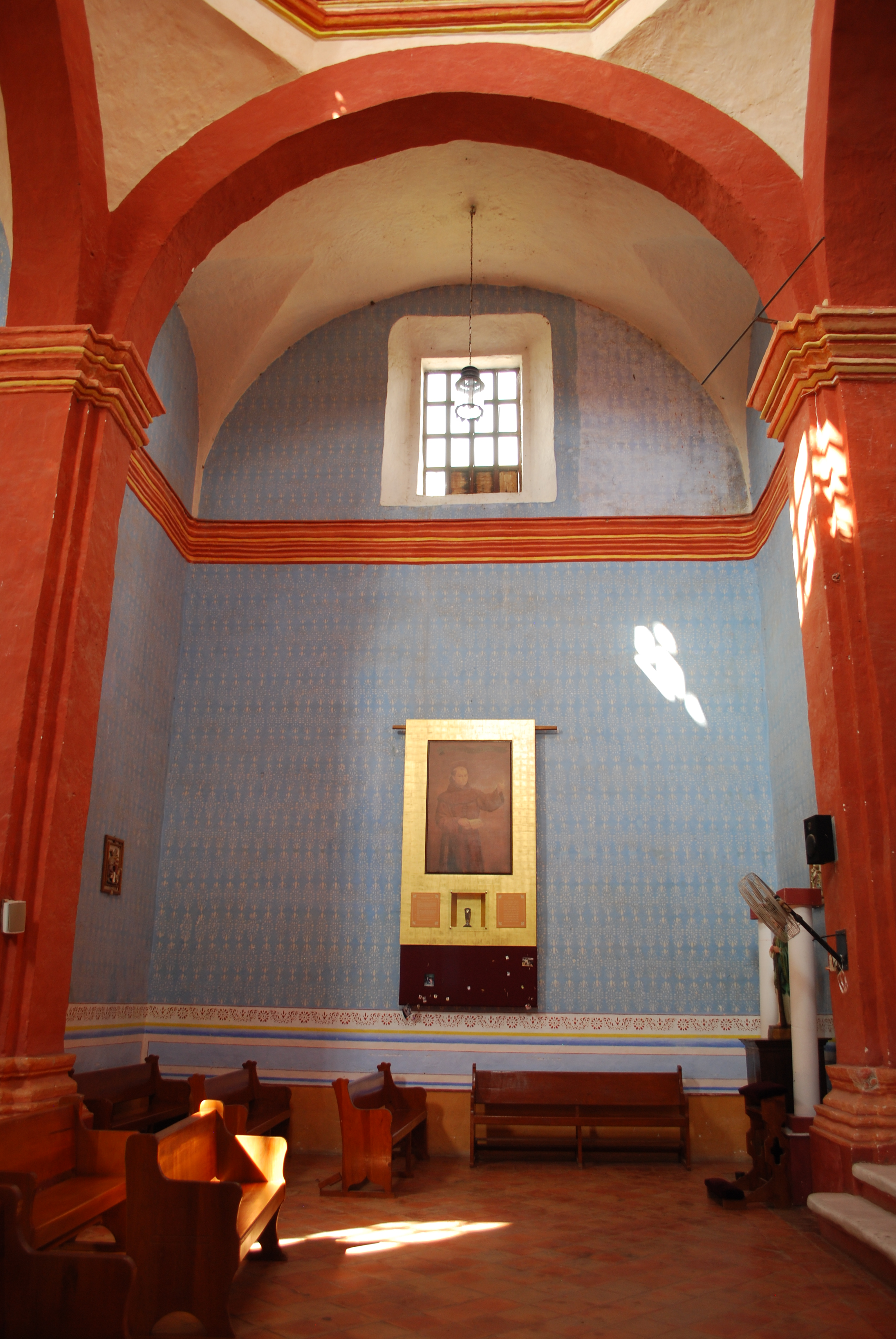 Plaque commemorating mission church at Concá, Arroyo Seco, Querétaro, Mexico as one of the five Franciscan missions of Junípero Serra